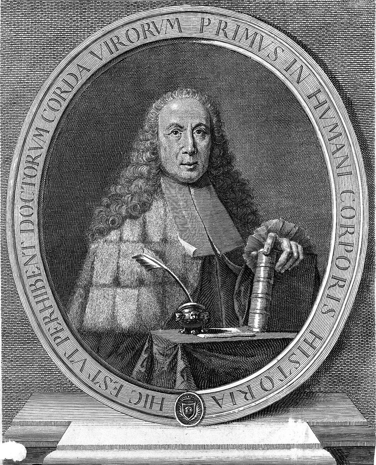 Portrait of Giovanni Battista Morgagni [1682 - 1771], Italian anatomist Rare Books